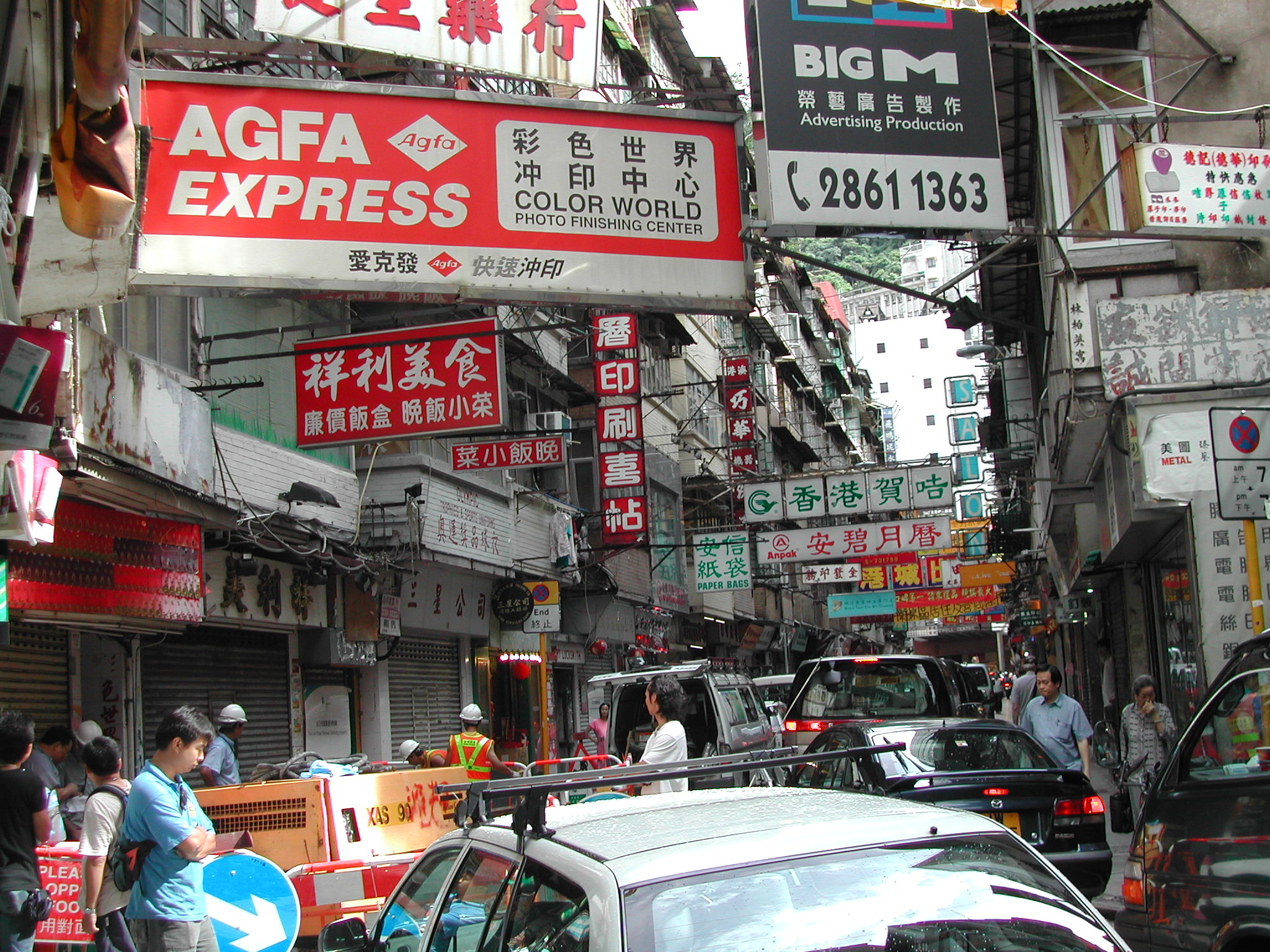 Photoed by Jerry Crimson Mann 19:45, 5 Jun 2005 (UTC).